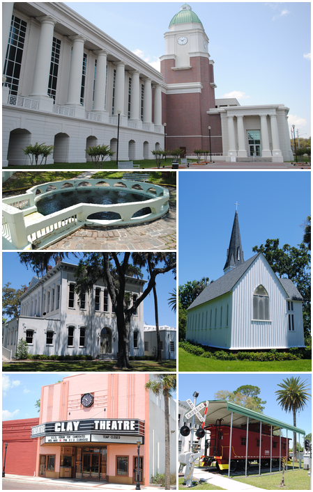 A collection of photos I took around Green Cove Springs, Florida.